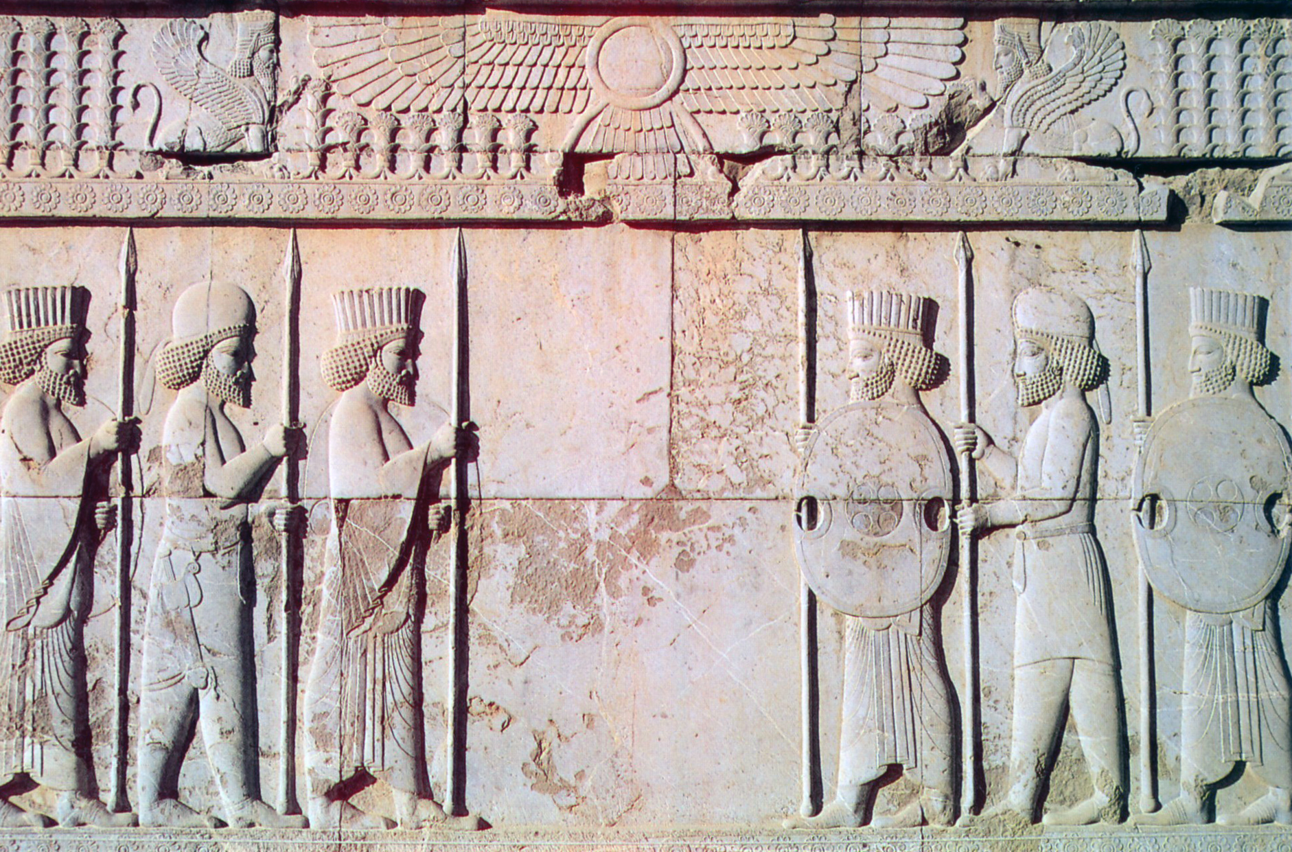 Carving of Persian (rounded hats) and Median Soldiers in traditional costume with Farvahar on Persepolis